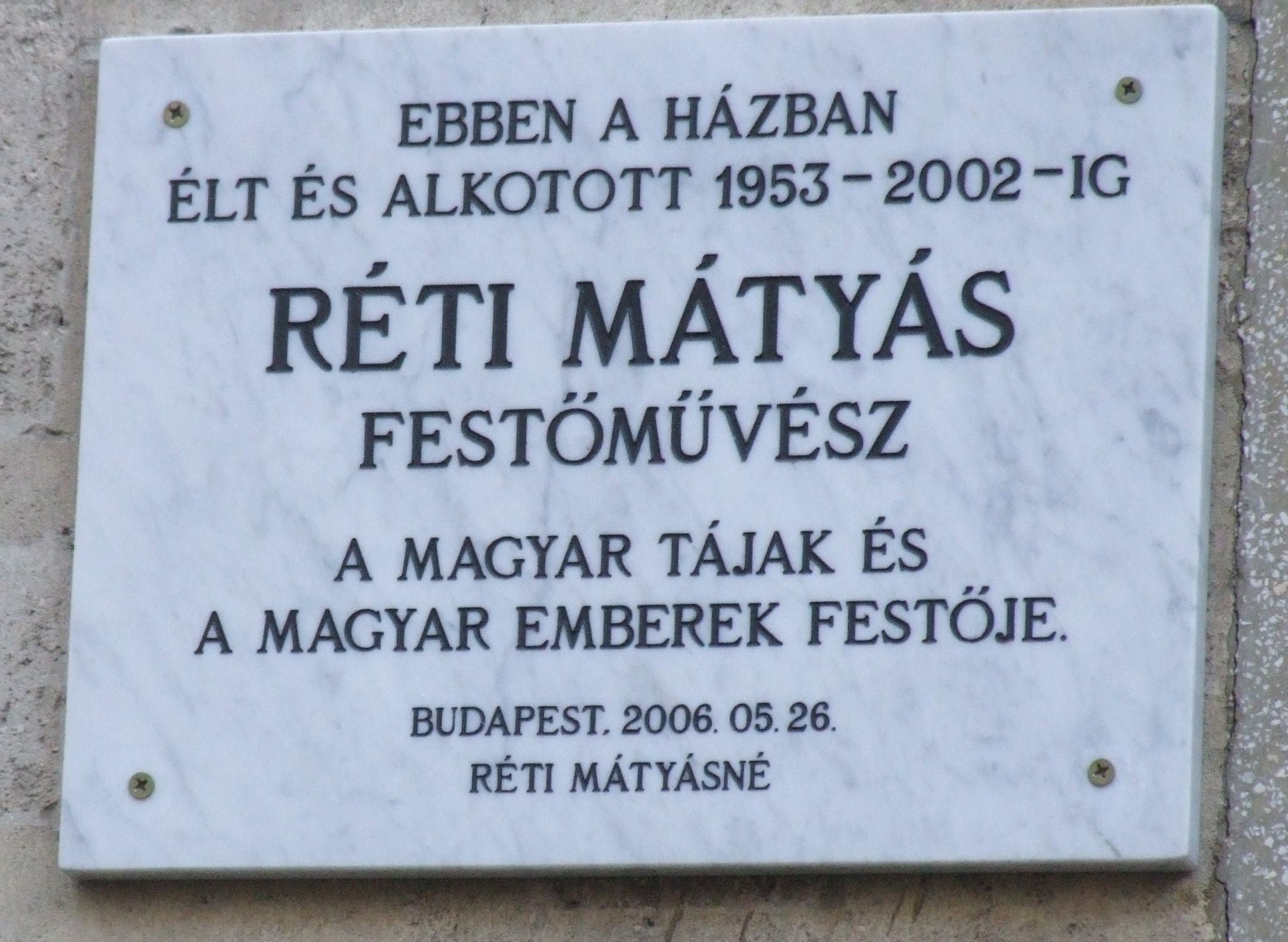 Mátyás Réti commemorative plaque in Budapest District I, Kosciuszkó Tádé Street No 18